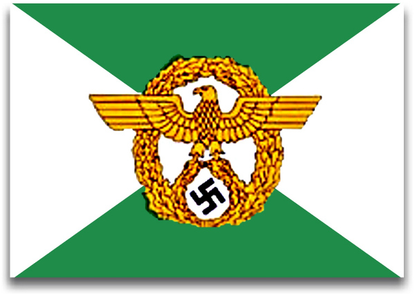 Flag of German Ordnungspolizei